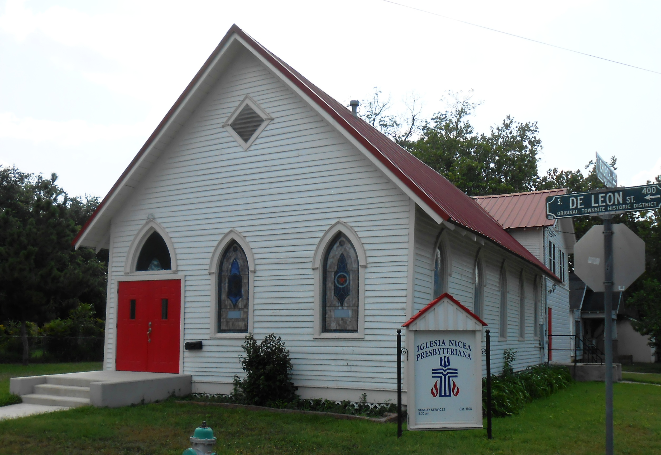 Presbyterian Iglesia Nicea, 401 S. DeLeon Street, Victoria, Texas